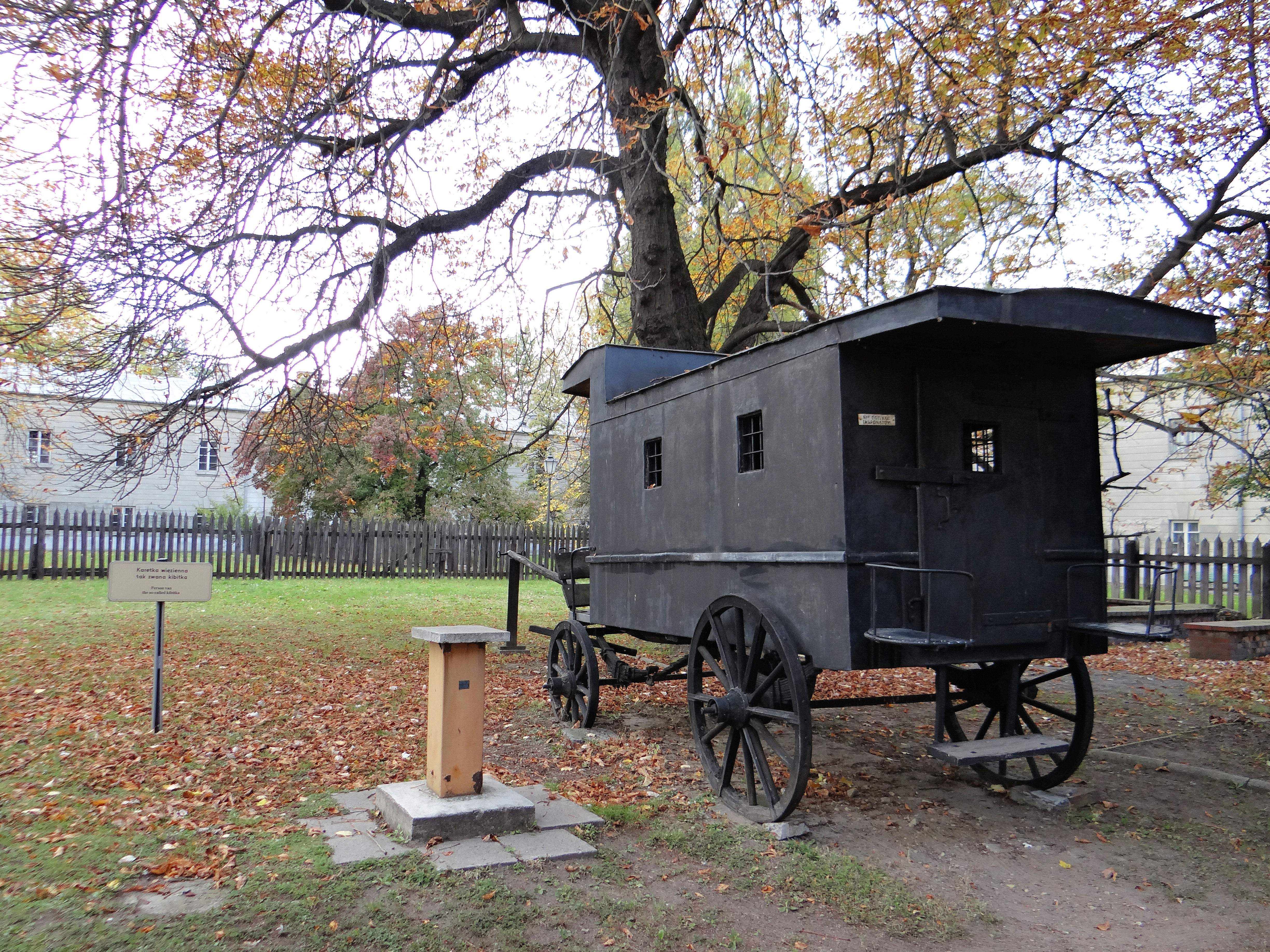 X Pavilion of Citadel in Warsaw